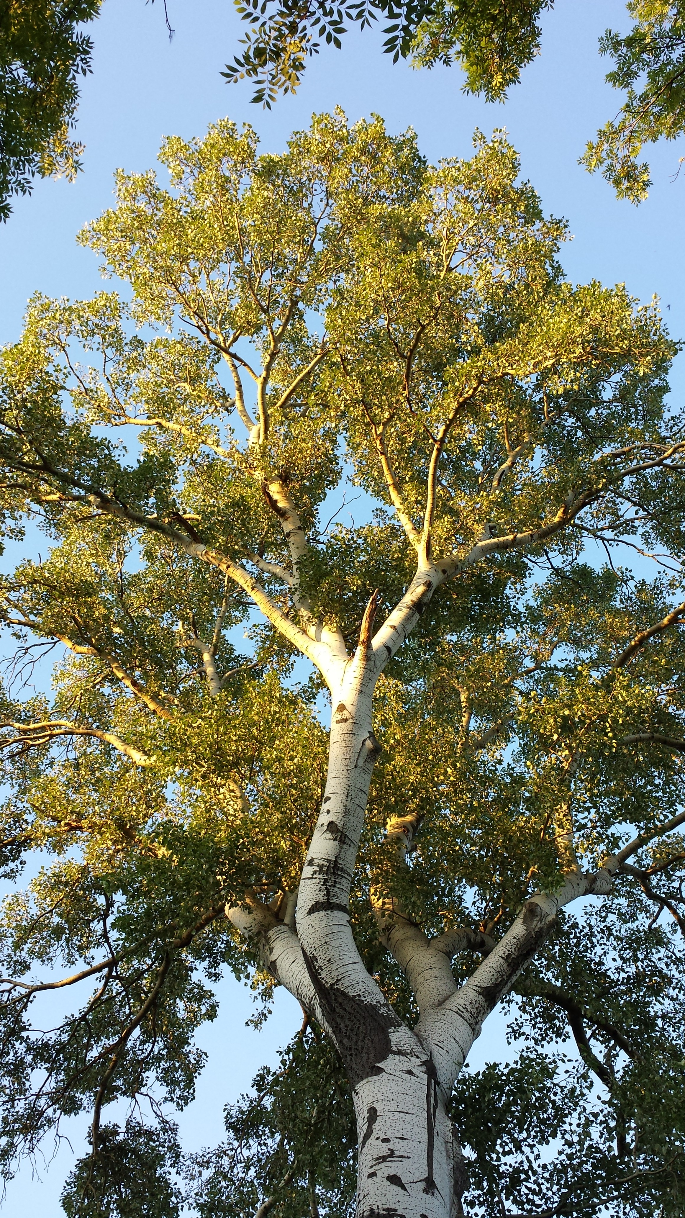 Natural monument #782 in Vienna, Populus alba